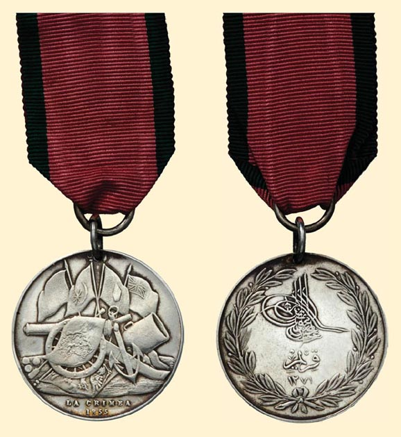 Turkish Crimean War medal Public domain